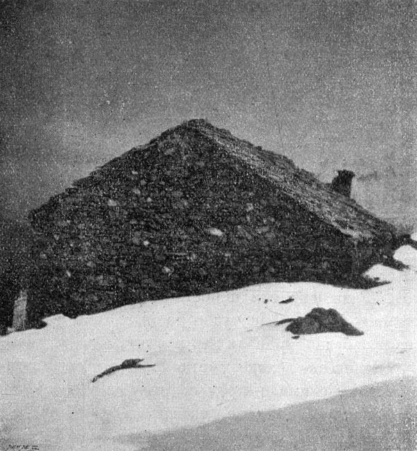 Crni Kamen guardpost, Nova iskra 22-23 (1899).